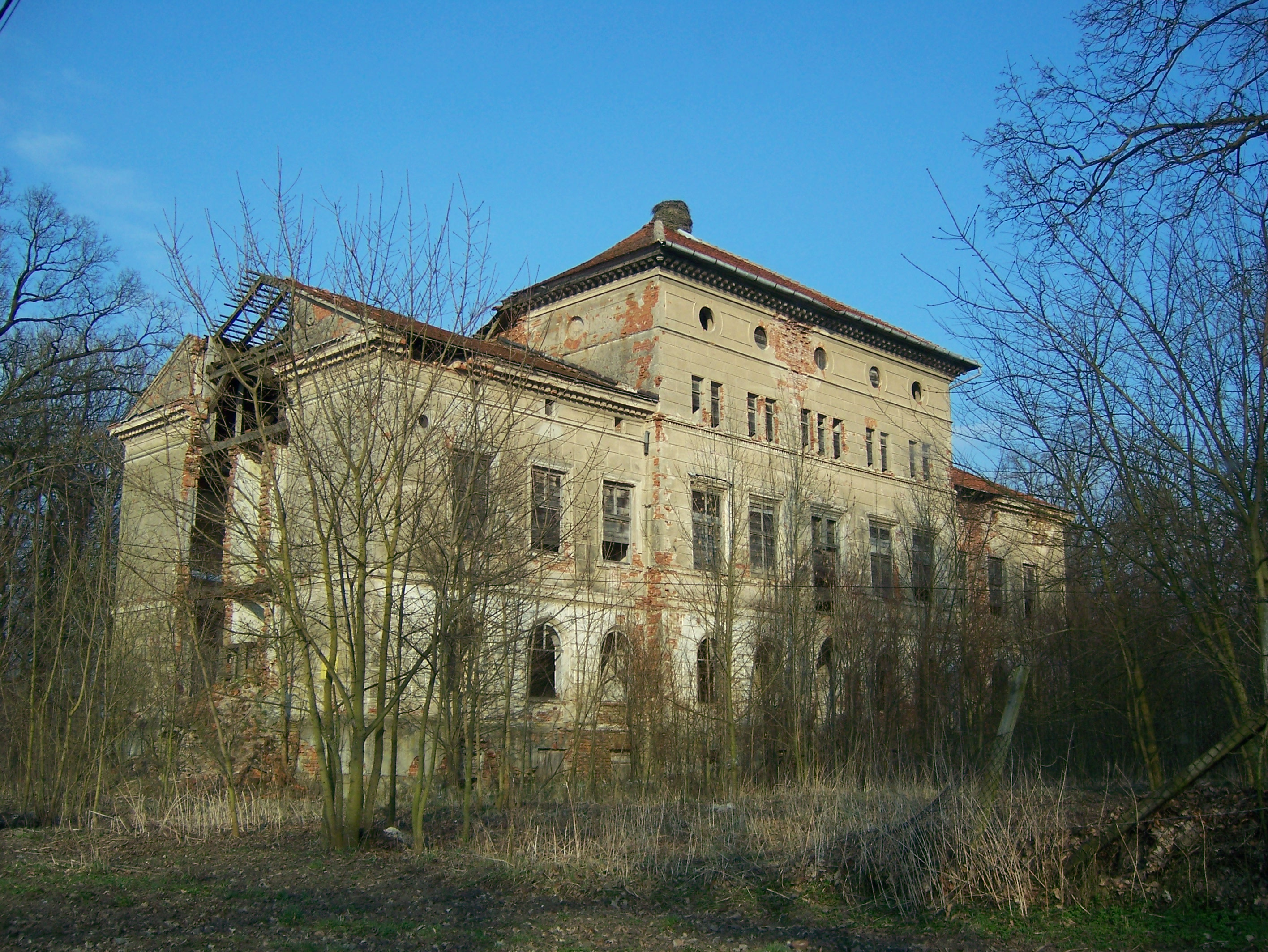 Ruins in Silginy